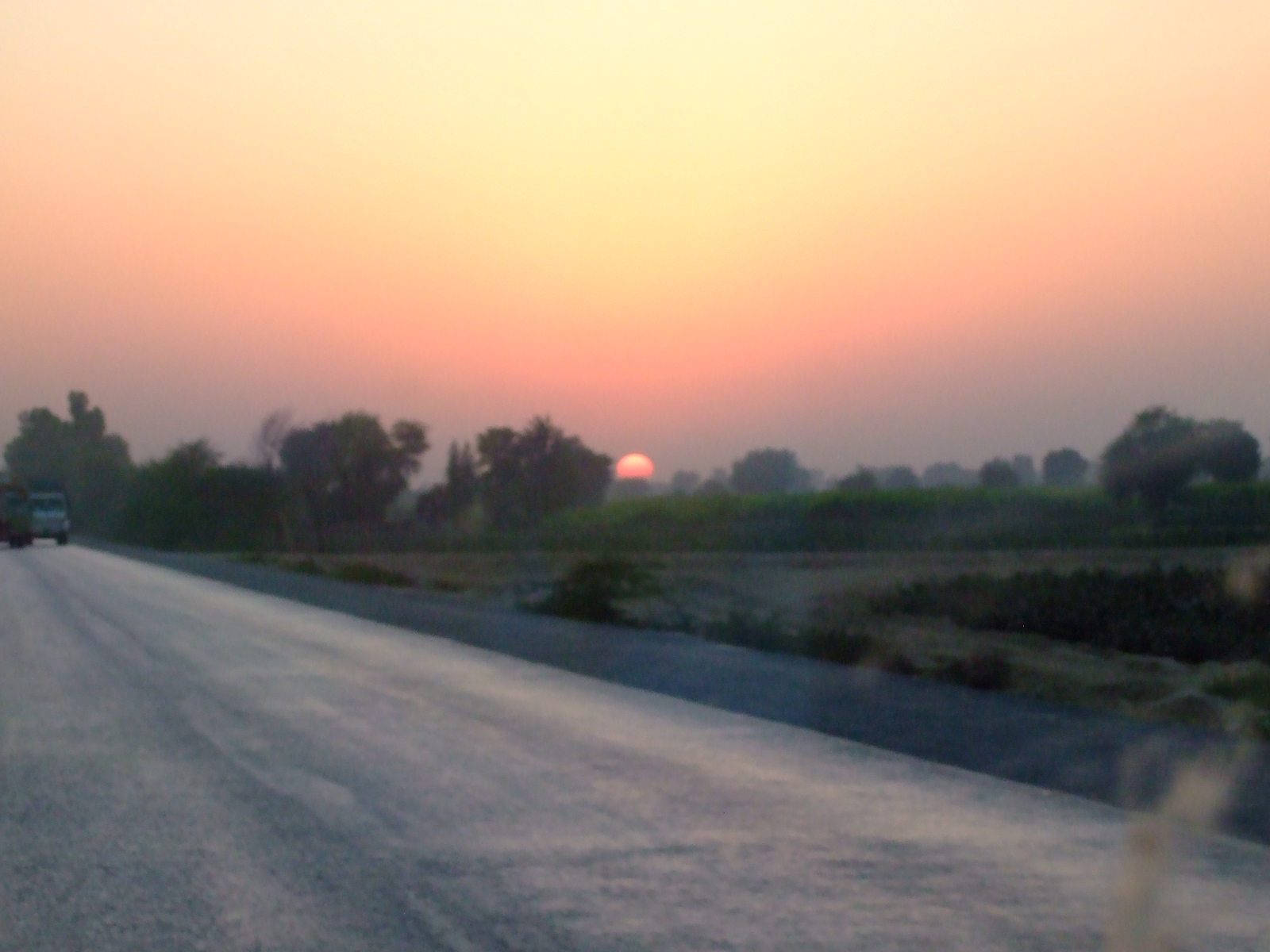 The horizon is the apparent line that separates earth from sky. The above picture is on the Indus highway Sindh Pakistan.